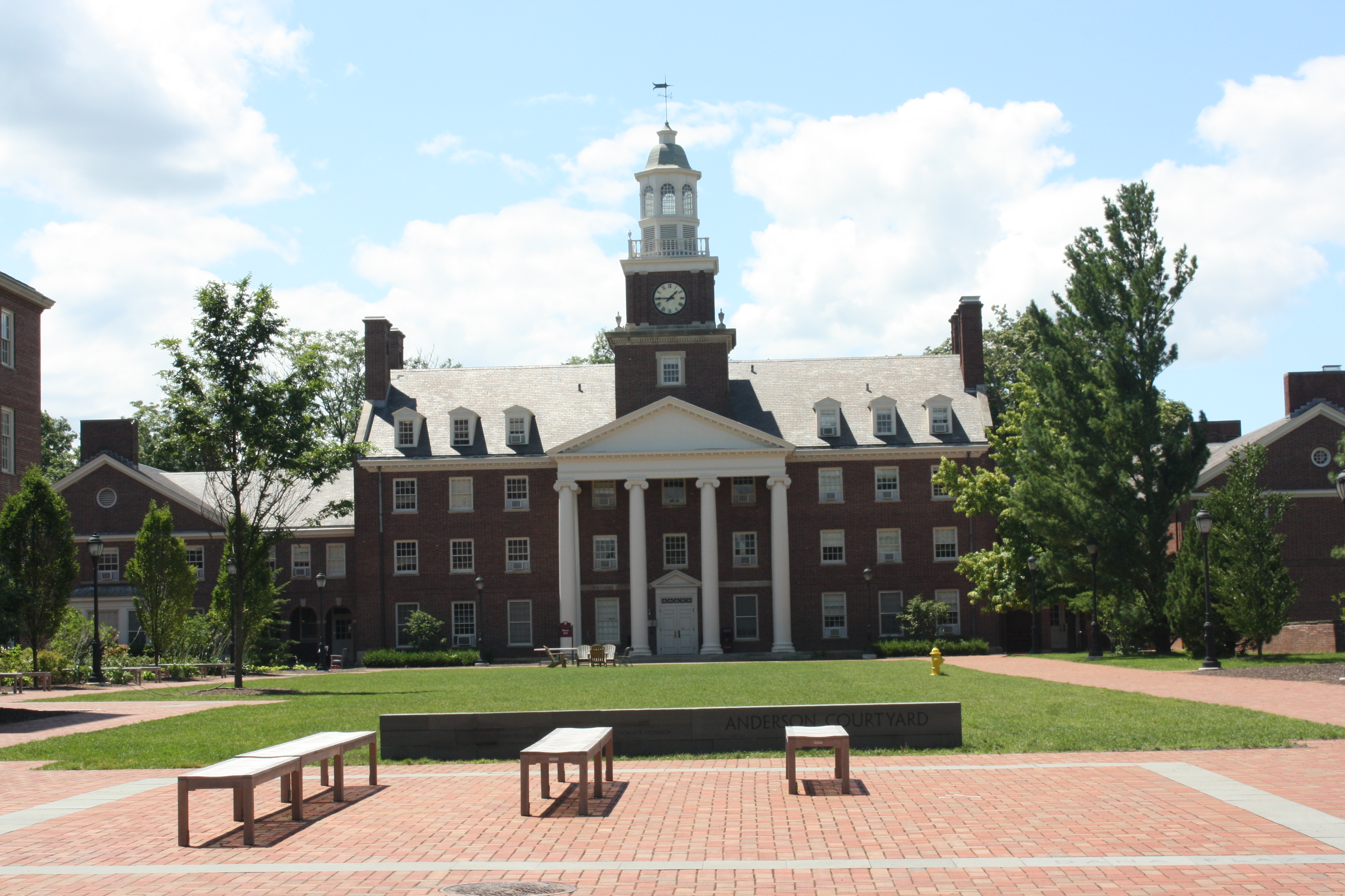 Lafayette College, Watson Hall, College Hill, Easton, PA.